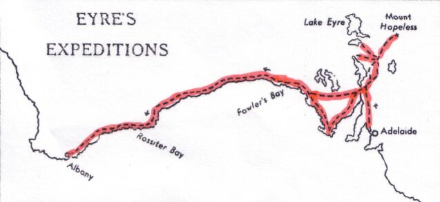 Map of the explorer's route in Australia. This image is of Australian origin and is now in the public domain because its term of copyright has expired. According to the Australian Copyright Council (ACC), ACC Information Sheet G023v17 (Duration of copyright) (August 2014). Type of materialCopyright has expired if ... A Photographs or other works published anonymously, under a pseudonym or the creator is unknown:taken or published prior to 1 January 1955 B Photographs (except A):taken prior to 1 January 1955 C Artistic works (except A & B):the creator died before 1 January 1955 D Published editions1 (except A & B):first published more than 25 years ago E Commonwealth or State government owned2 photographs and engravings:taken or published more than 50 years ago and prior to 1 May 1969 1 means the typographical arrangement and layout of a published work. eg. newsprint. 2owned means where a government is the copyright owner as well as would have owned copyright but reached some other agreement with the creator. When using this template, please provide information of where the image was first published and who created it.